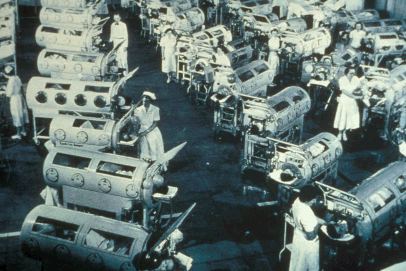 Film publicity photo of an imaginary iron lung ward.